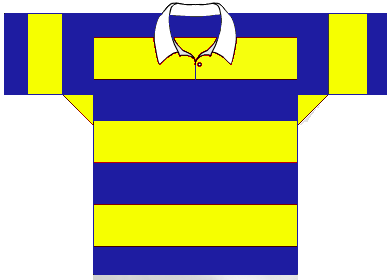 Jersey of the defunct London Highfield RLFC.